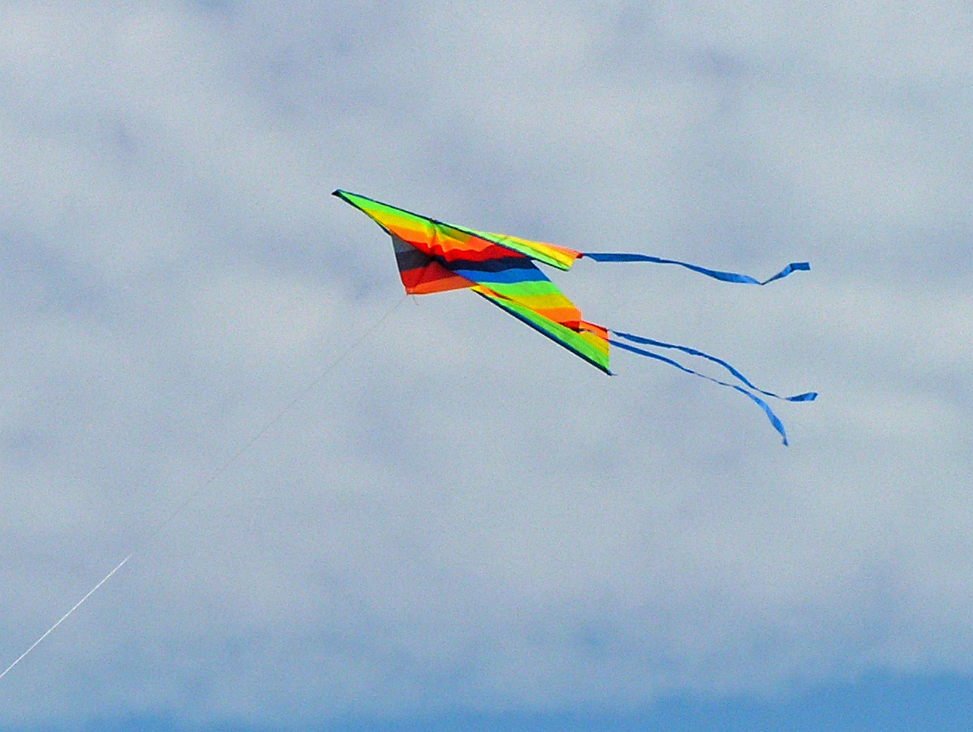 Kite